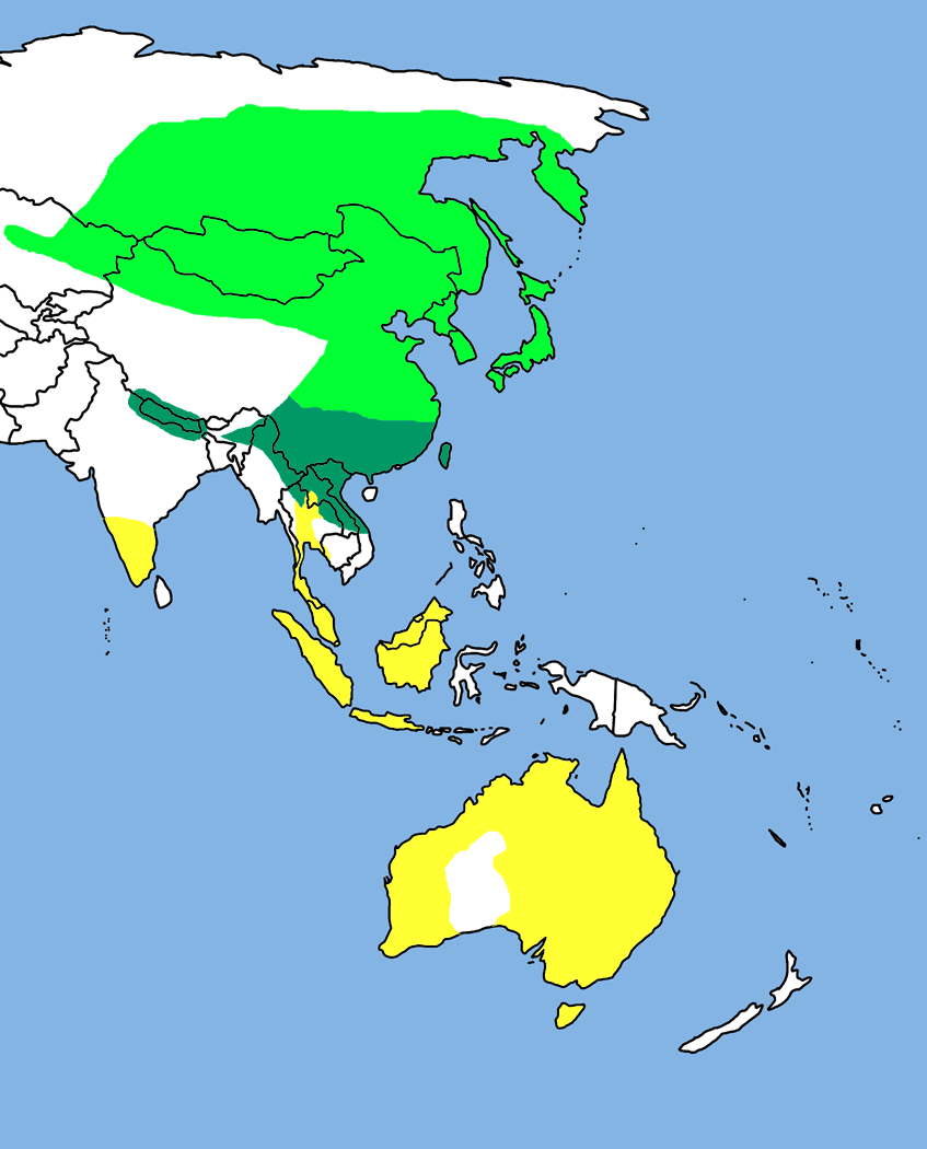 Distribution of Apus pacificus. Resident range: dark green; summering range: light green; wintering range: yellow. Data Source: Phil Chantler, Gerald Driessens: A Guide to the Swifts and Tree Swifts of the World; Pica Press; Mountfield 2000; ISBN 1-873403-83-6, modified accoridng to